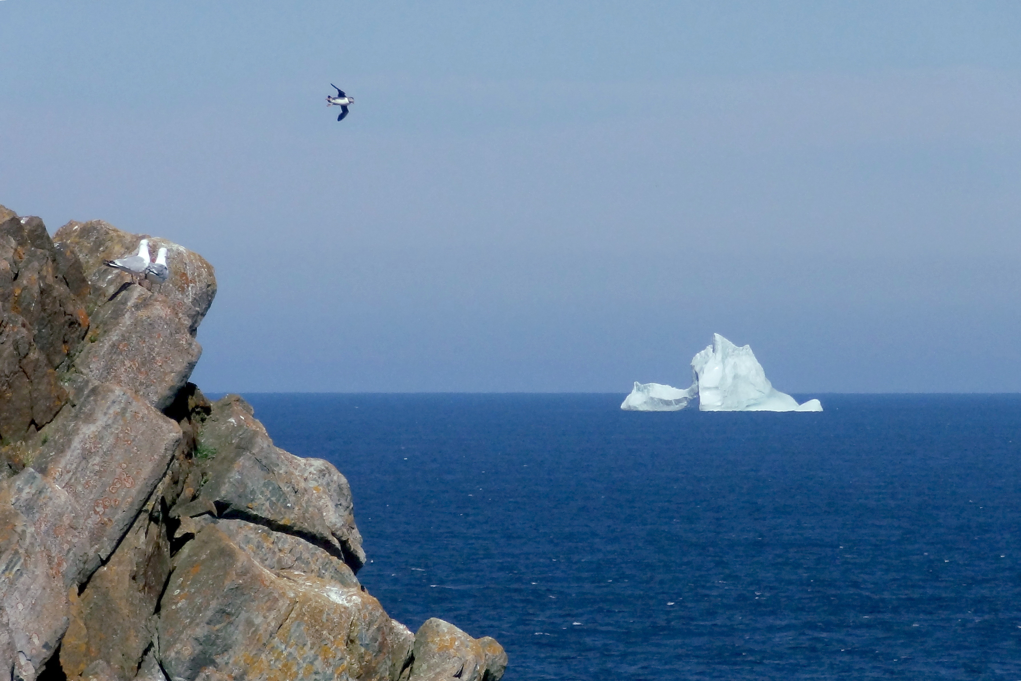 Iceberg and tip of puffin colony island, looking east from alongside lighthouse at Cape Bonavista, Newfoundland, Canada